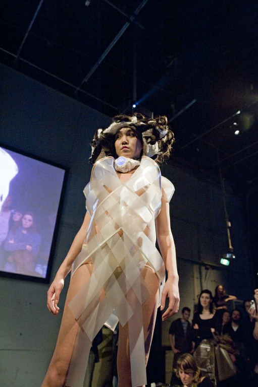 Model wearing a dress from the Intimacy line of clothing, developed by Studio Roosegaarde